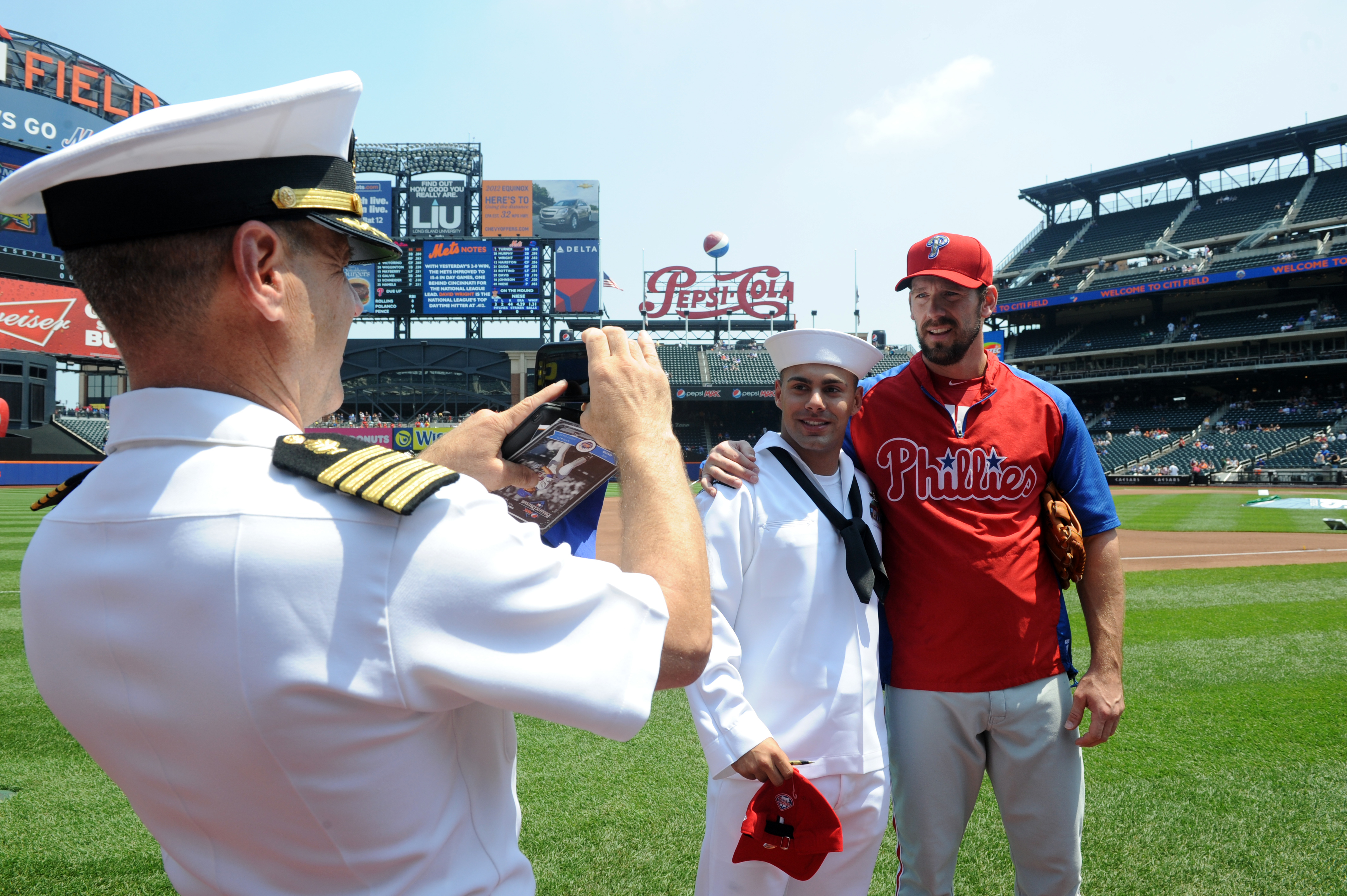 NEW YORK (May 28, 2012) A Sailor poses with Philadelphia Phillies pitcher, Cliff Lee before the 5th Annual Military Appreciation game at Citi Field during Fleet Week New York 2012. Fleet Week New York 2012 marks the 25th year the city has celebrated the nation's sea services for the citizens of New York and the tri-state area. This year, the seven-day event, coincides with the commemoration of the Bicentennial of the War of 1812, with more than 6,000 service-members from the Navy, Marine Corps and Coast Guard sea services in addition to coalition ships from around the world. (U.S. Navy photo by Mass Communication Specialist Seaman Molly Greendeer/Released) 120528-N-YC505-115 Join the conversation navylive.dodlive.mil